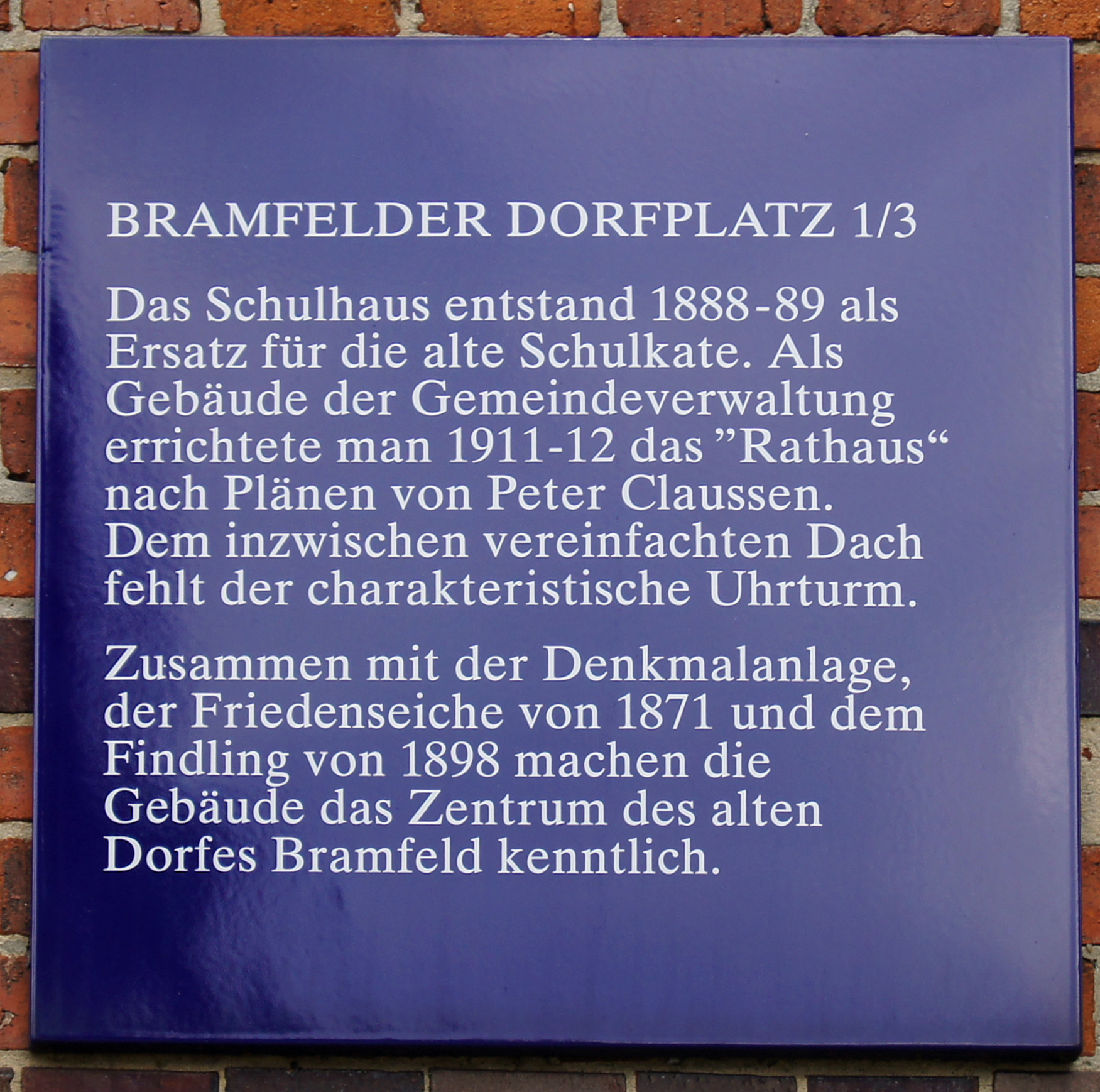 Hamburg (Bramfeld), Germany: Plaque Bramfelder Dorfsplatz 1-3